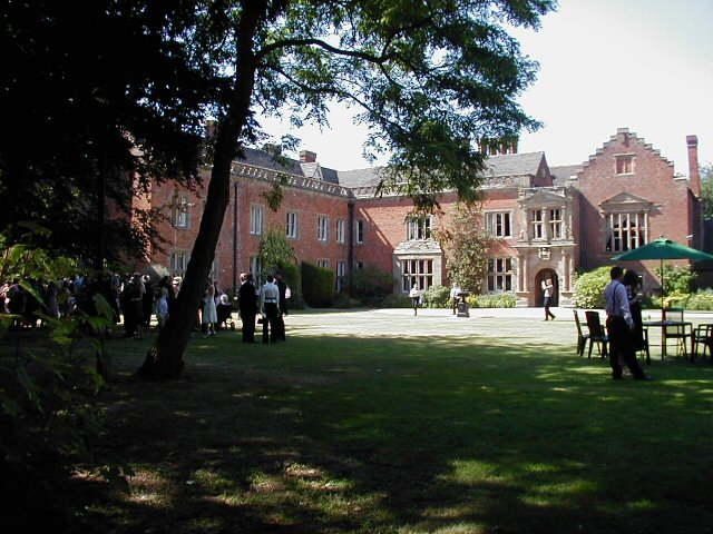 Grafton Manor, an early sixteenth-century house, modified in 1567 by John Talbot. The Gunpowder Plotters met here in 1605 two days before the intended event. Later that century, the then owner, Charles Talbot, mortgaged the estate and sailed to Holland to encourage William of Orange to seize the throne.